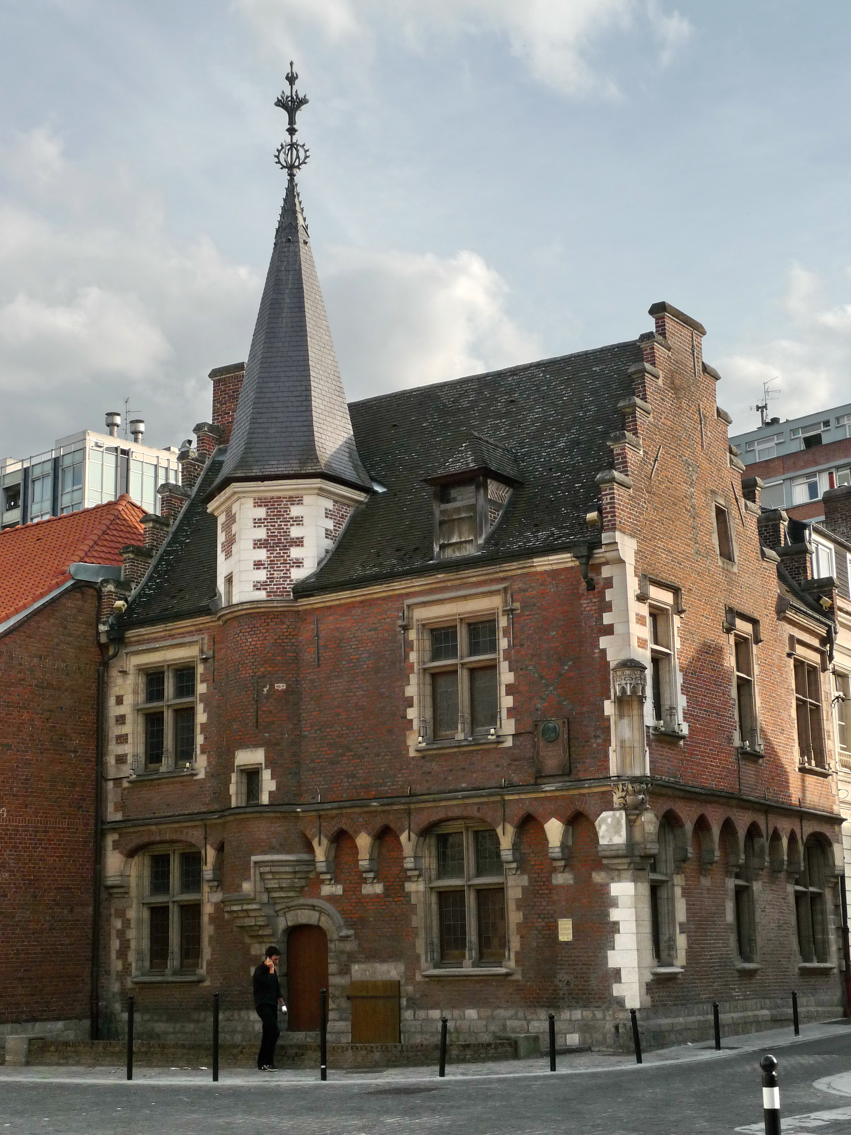 Valenciennes, "Maison du Prévôt" : interesting building dating from the end of XIV th century, covered the following century with a fine course of brick and stone. Crow-stepped,gable,mullioned windows,small arcades,carved niche, turret surmounted with a pinnacle.